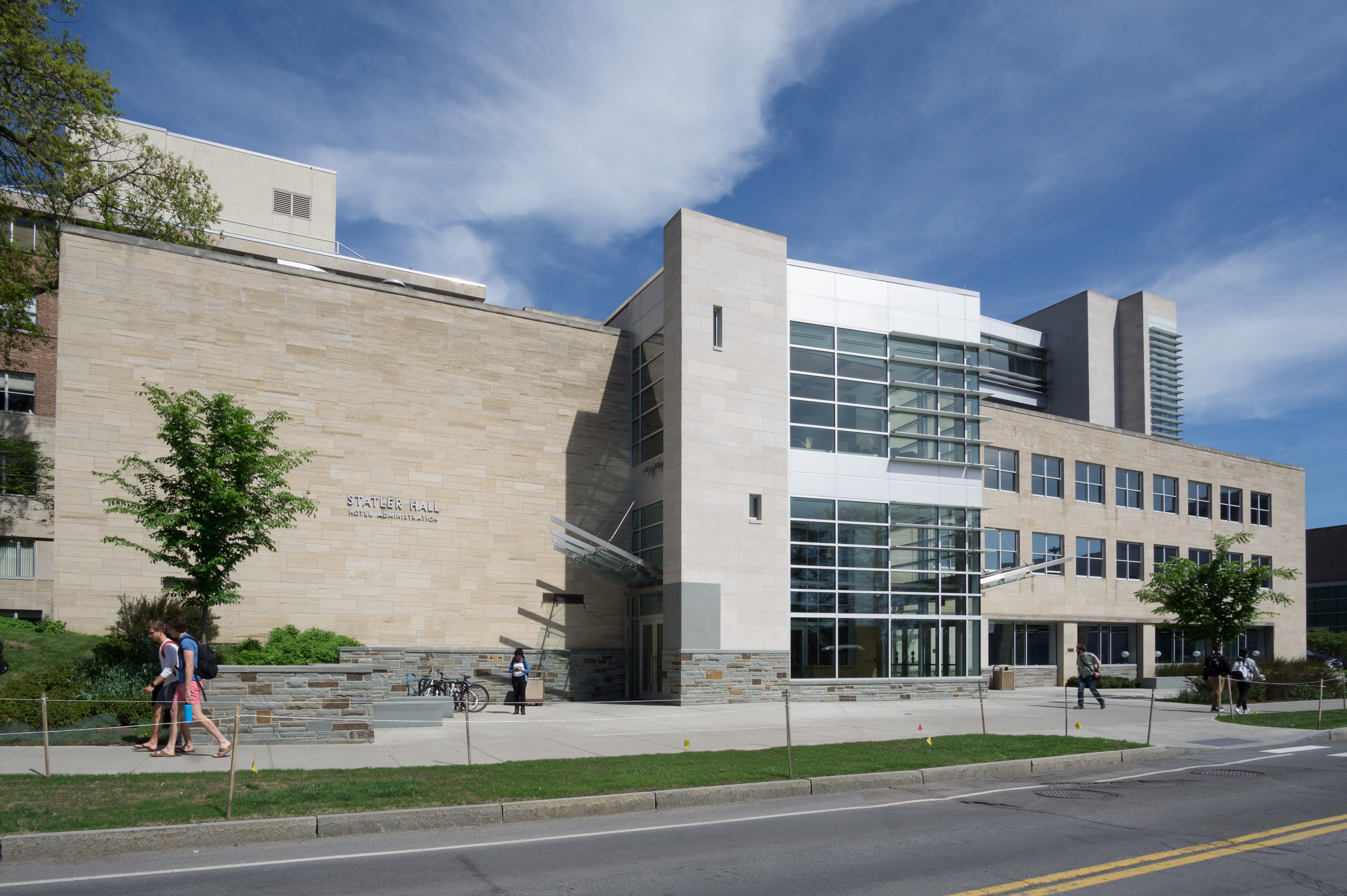 Statler Hall, west (East Avenue) facade, Cornell University, Ithaca, NY, 2018